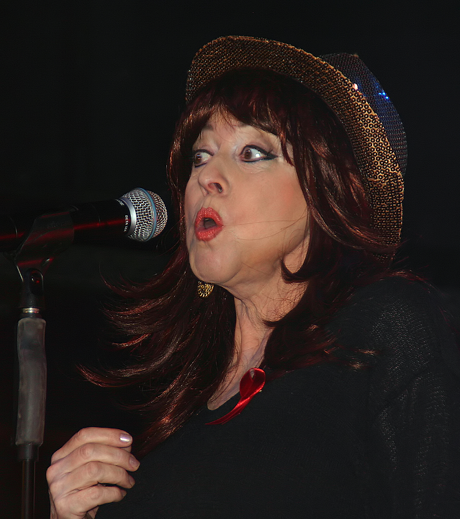 Marion Maerz, German singer, at Cover-me, a charity concert in Cologne, Germany.